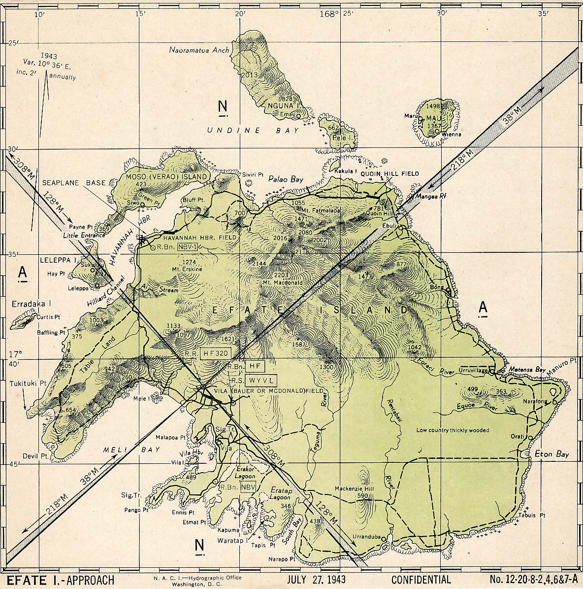 Map of approach to Efate Island showing military installations